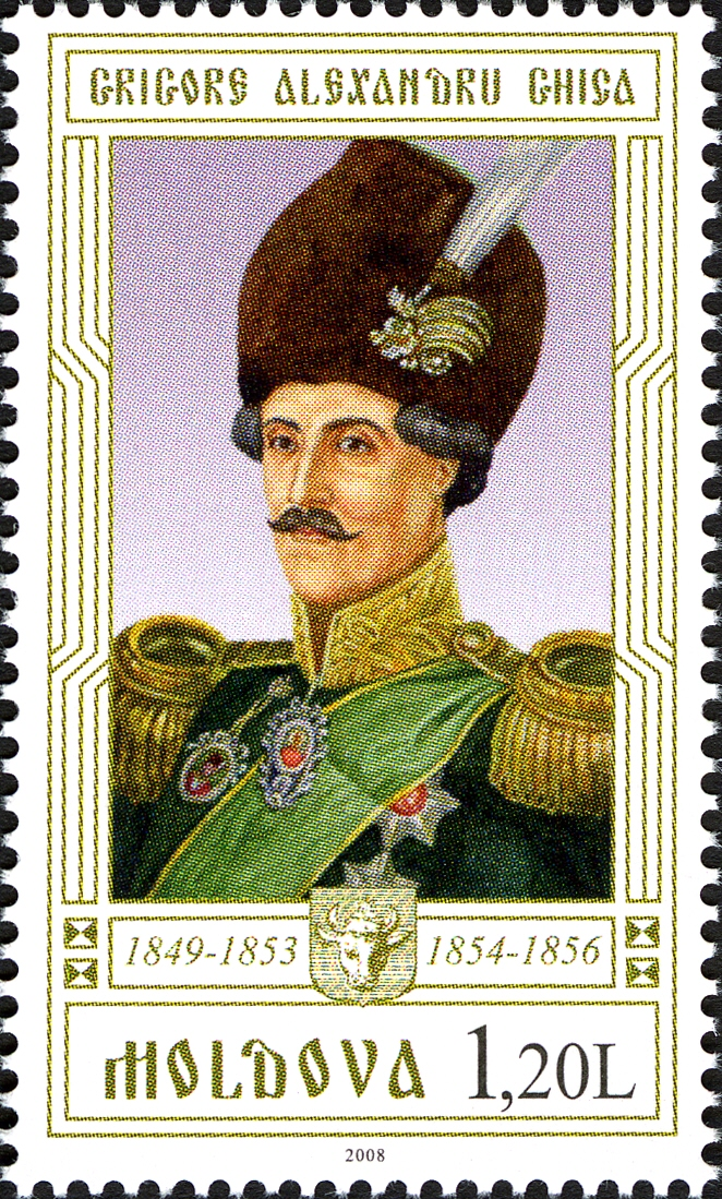 Grigore Alexandru Ghica, on Stamp of Moldova